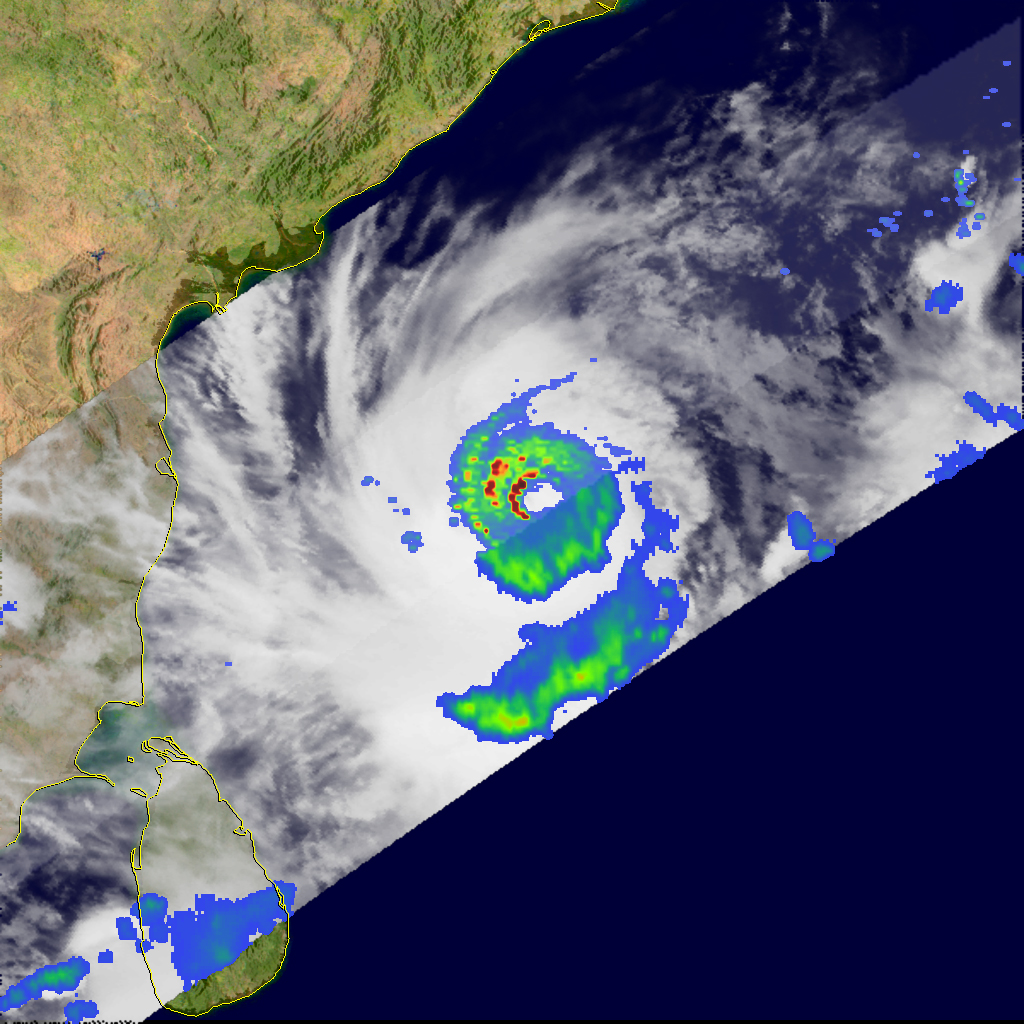 TRMM Image of Cyclone Nargis over Western Bay of Bengal